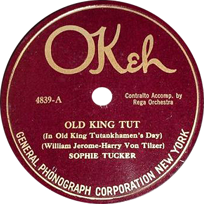 "Old King Tut", label of 1923 Okeh record by Sophie Tucker, composed by William Jerome & Harry Von Tilzer.